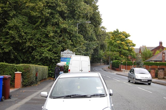 Boundary of Manchester and Stockport, on Mauldeth Road